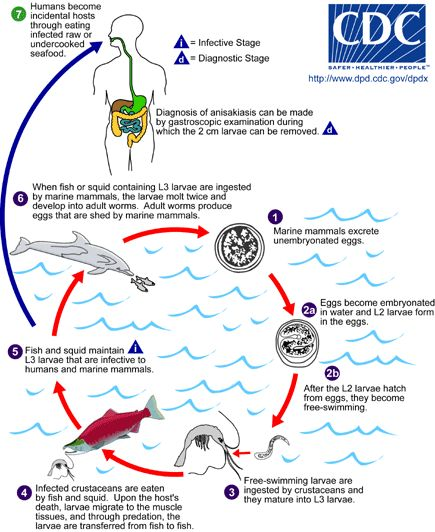 Adult stages of Anisakis simplex or Pseudoterranova decipiens reside in the stomach of marine mammals, where they are embedded in the mucosa, in clusters. Unembryonated eggs produced by adult females are passed in the feces of marine mammals The number 1. The eggs become embryonated in water, and first-stage larvae are formed in the eggs. The larvae molt, becoming second-stage larvae The number 2a, and after the larvae hatch from the eggs, they become free-swimming The number 2b. Larvae released from the eggs are ingested by crustaceans The number 3. The ingested larvae develop into third-stage larvae that are infective to fish and squid The number 4. The larvae migrate from the intestine to the tissues in the peritoneal cavity and grow up to 3 cm in length. Upon the host's death, larvae migrate to the muscle tissues, and through predation, the larvae are transferred from fish to fish. Fish and squid maintain third-stage larvae that are infective to humans and marine mammals The number 5. When fish or squid containing third-stage larvae are ingested by marine mammals, the larvae molt twice and develop into adult worms. The adult females produce eggs that are shed by marine mammals The number 6. Humans become infected by eating raw or undercooked infected marine fish The number 7. After ingestion, the anisakid larvae penetrate the gastric and intestinal mucosa, causing the symptoms of anisakiasis.